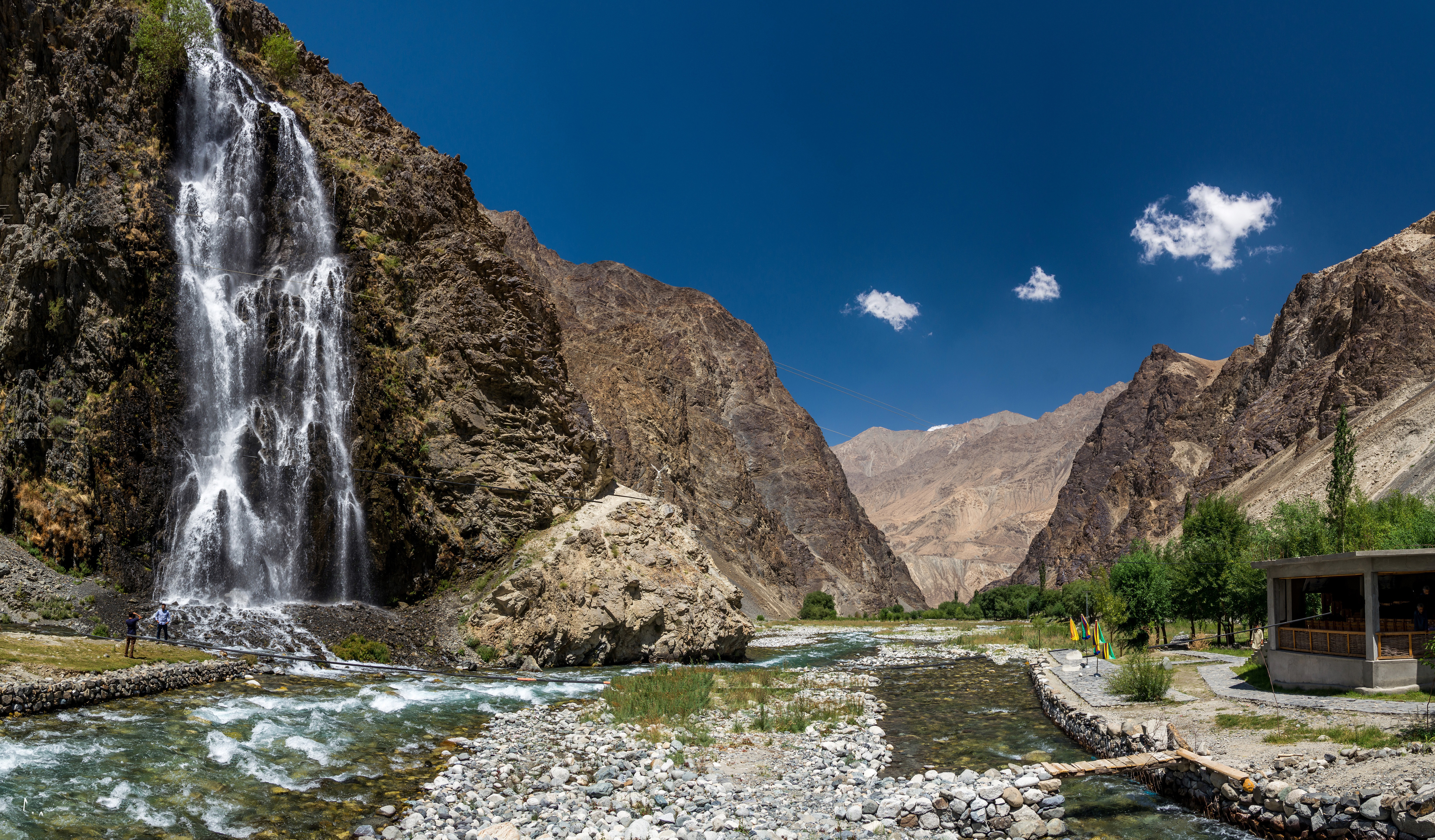 Skardu, Gilgit Baltistan, Pakistan